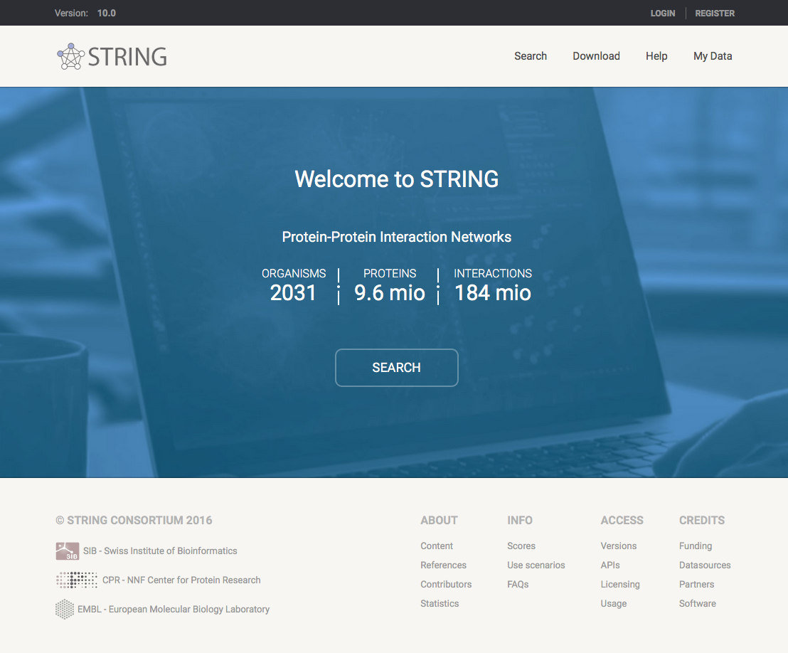 Homepage of website